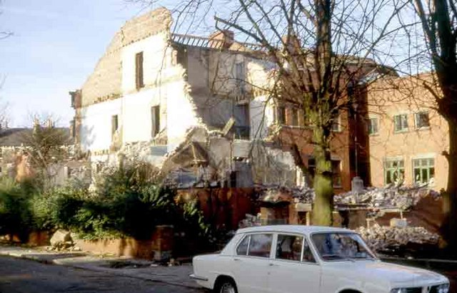 Demolition of Norwood College, Harrogate, 1972. Norwood College stood on the corner of Tewit Well Ave and Leeds Rd, Harrogate. It was established as a Boys' Day and Boarding School by 'Charlie' G W G Cass in 1936 and closed on 24 March,1972. This photograph was taken because I just happened to be visiting Harrogate and had no prior knowledge of the school's closure nor intention to demolish it! The photograph is taken from Tewit Well Ave; the flats on the left hand side are those of Royal Crescent in Leeds Rd. The car, mine, was a Triumph 1500. Charlie Cass was born in Scarborough in 1898, flew as a fight pilot in Sopwith Dolphins in the First World War and the world-renouned physicist, Lawrence Bragg, was one of his tutors at the Victoria University of Manchester in the mid-1920s. Charlie died on 13 October,1976. A biography of Charlie Cass with history of Clifton House School (Queen Parade then Stray Rd) and Norwood College is at [1] .